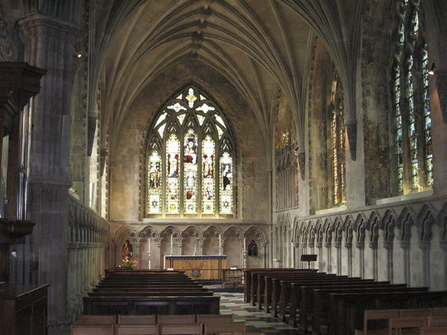 St Albans Cathedral